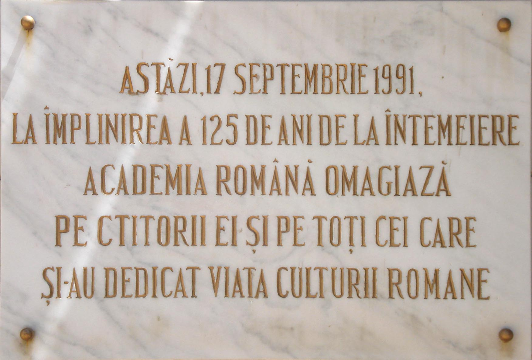 A slate that thanks all the contributors to Romanian Academy